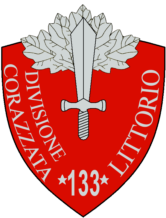 Coat of Arms of the WWII 133a Divisione Corazzata Littorio of the Italian Regio Esercito